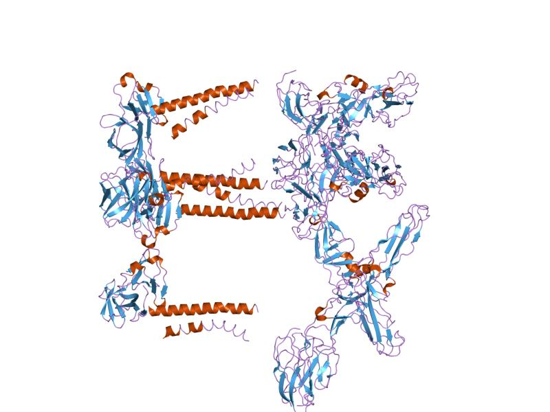 Cartoon representation of the molecular structure of protein registered with 1z8y code.